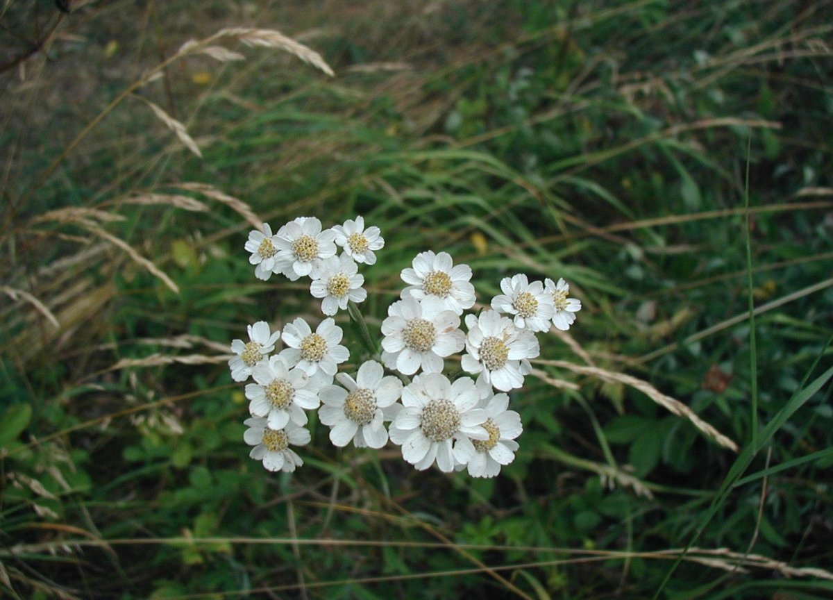 Achillea ptarmica: Flowers. Natural habitat in Jutland.